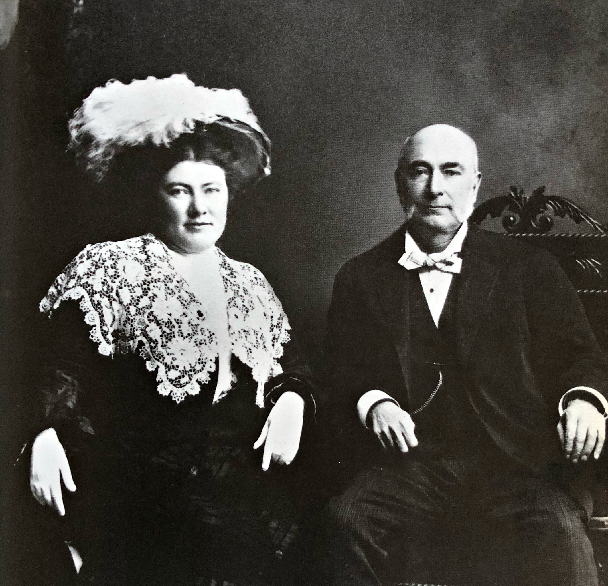 Ernest Hemingway's mother and grandfather. Grace Hall Hemingway and Ernest Hall, circa 1895